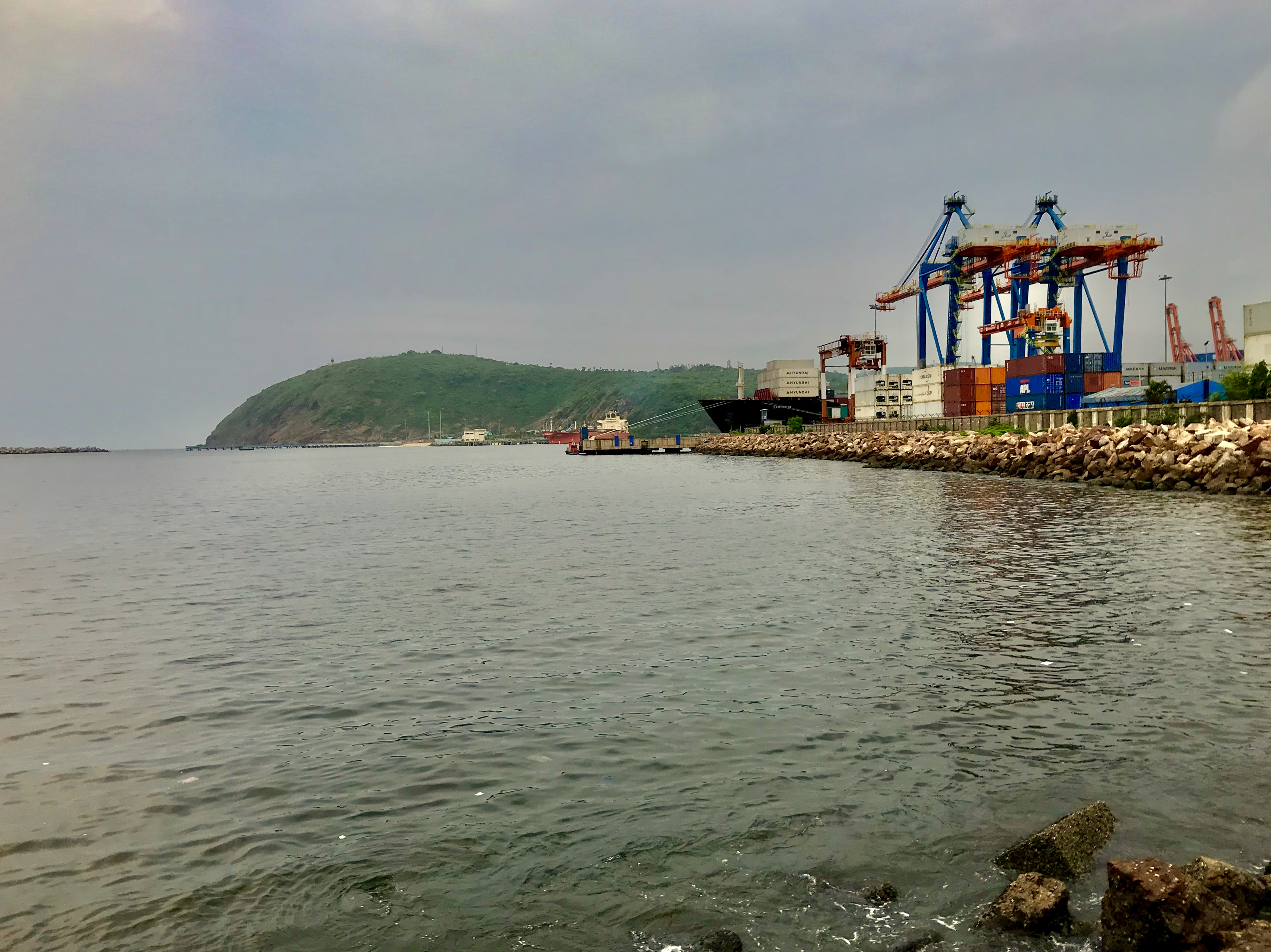 Visakhapatnam seaport from Fishing Harbour